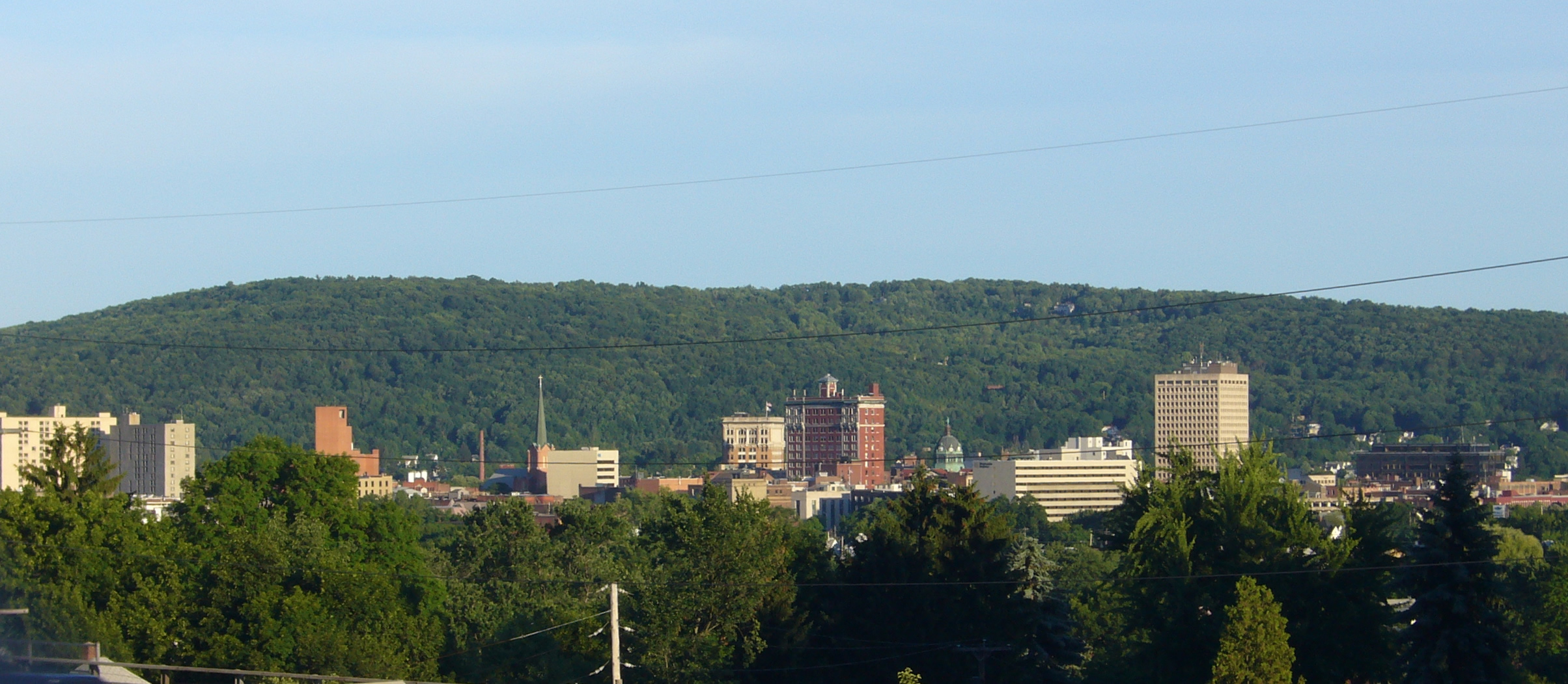 Photo of Binghamton, New York skyline taken from NY 17 in June 2007.